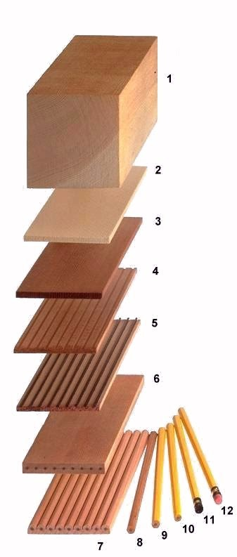 Pencil's production